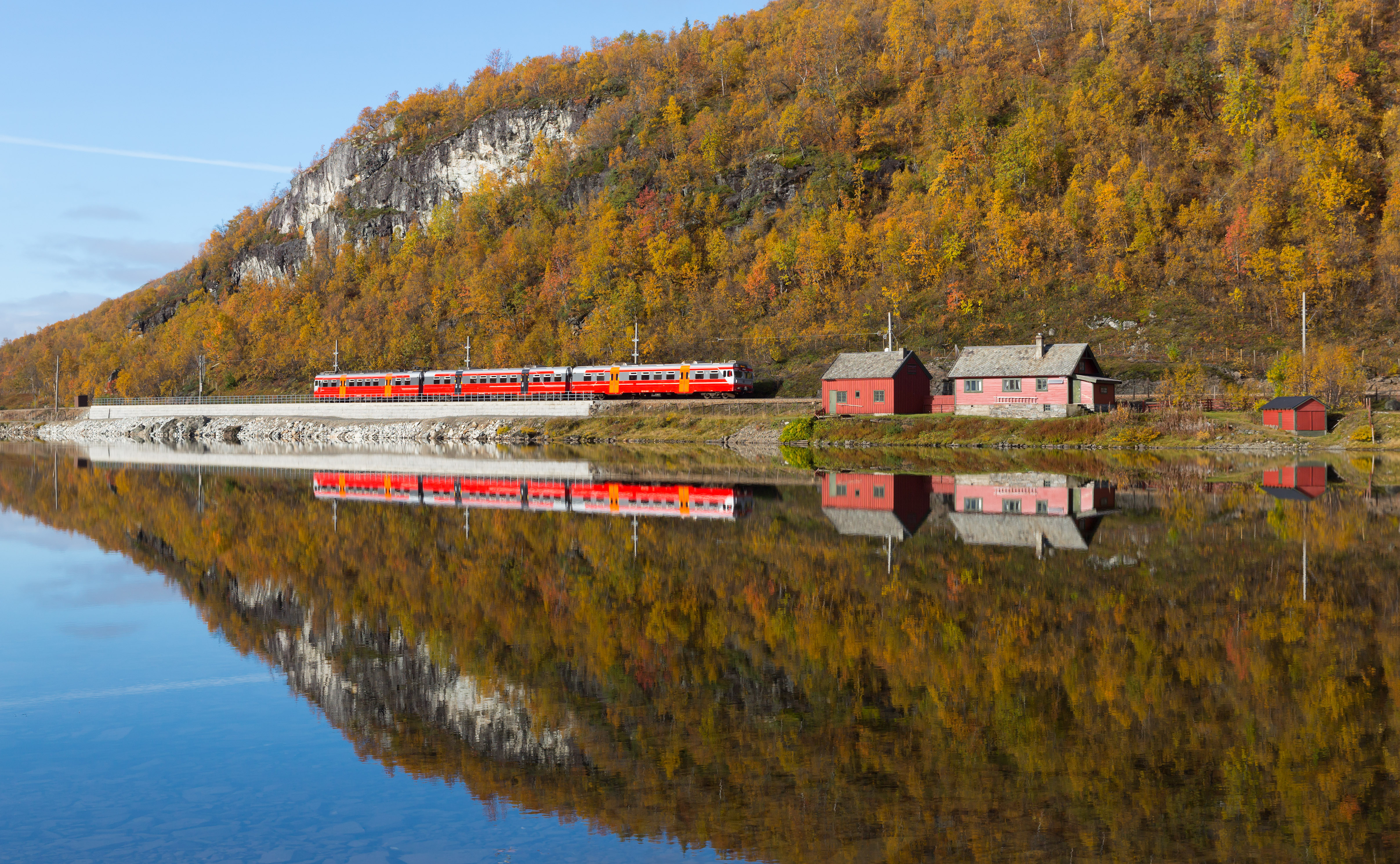 NSB class BM 69 as Lokaltog Myrdal - Bergen is following the Langavatnet between Vieren and Ørneberget, Norway.